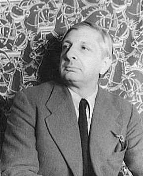 Portrait of Giorgio de Chirico